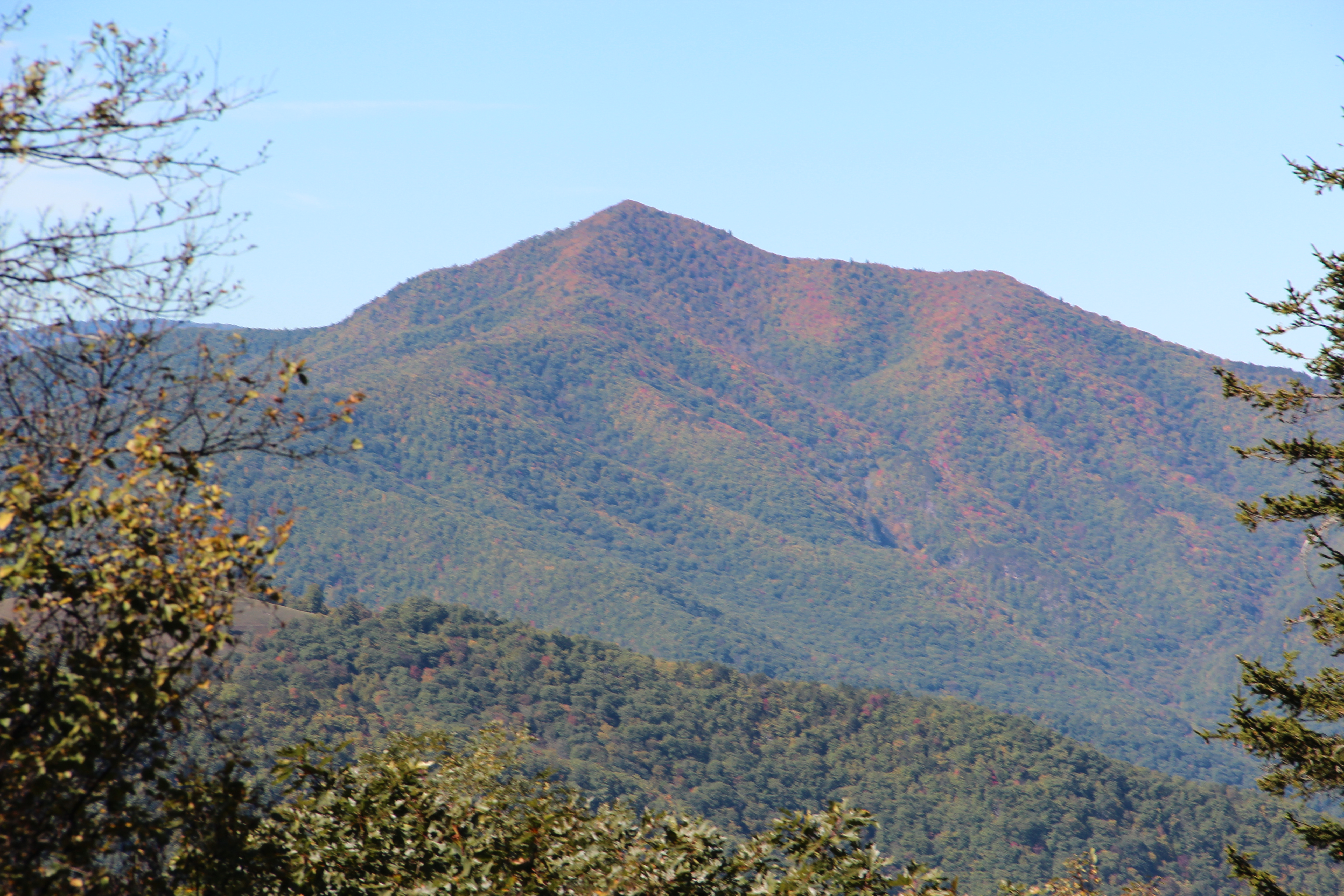 Cold Mountain seen from Mount Pisgah Overlook